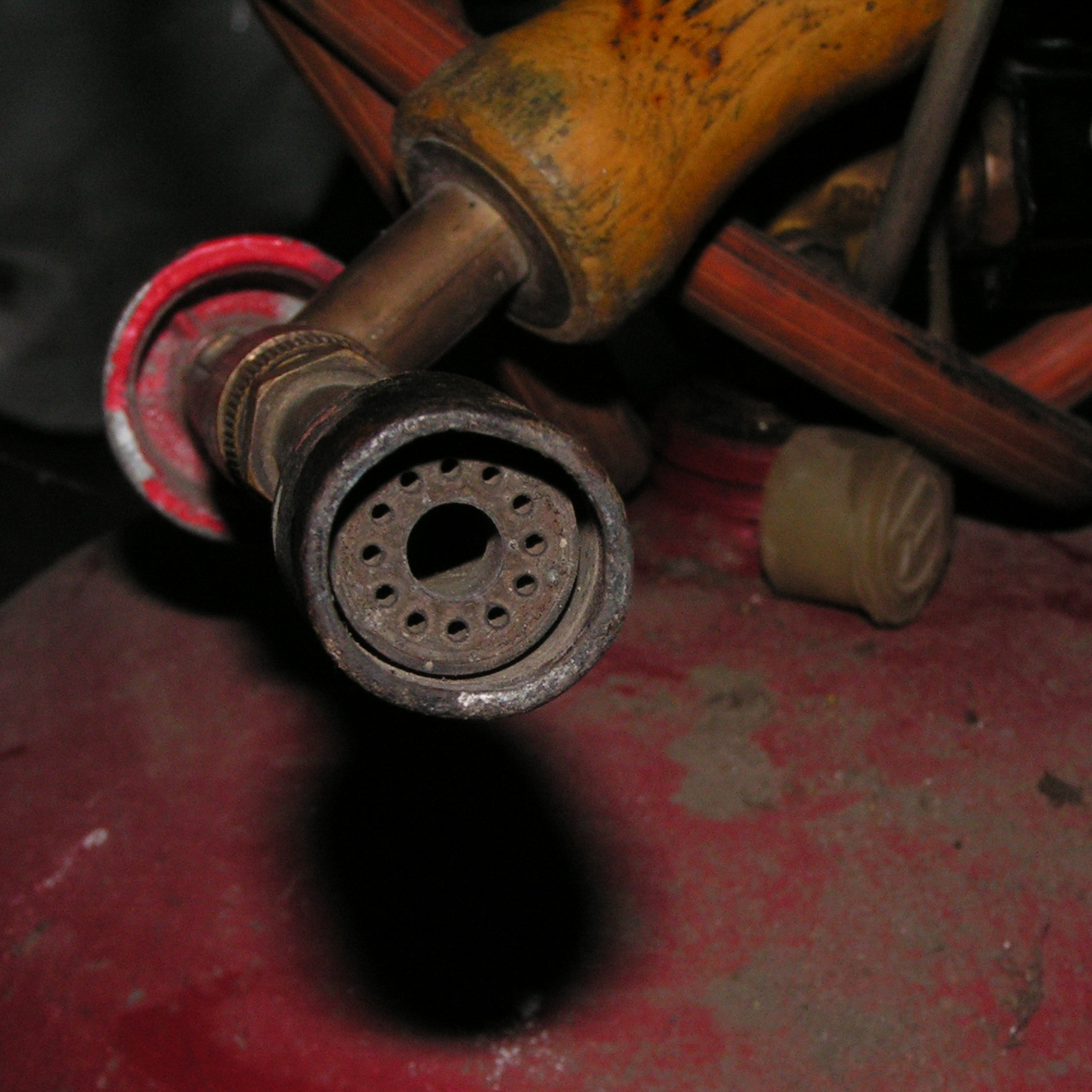 Transferred from polish Wikipedia